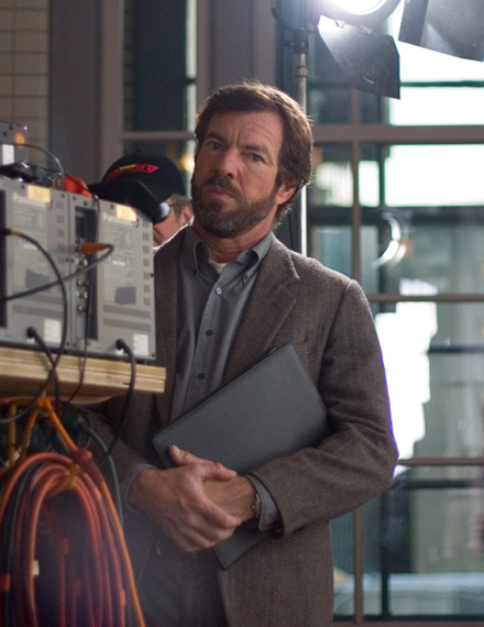 Dennis Quaid on Carnegie Mellon University campus to film the movie Smart People. Hamburg Hall, Carnegie Mellon University, Pittsburgh, PA., November 2006